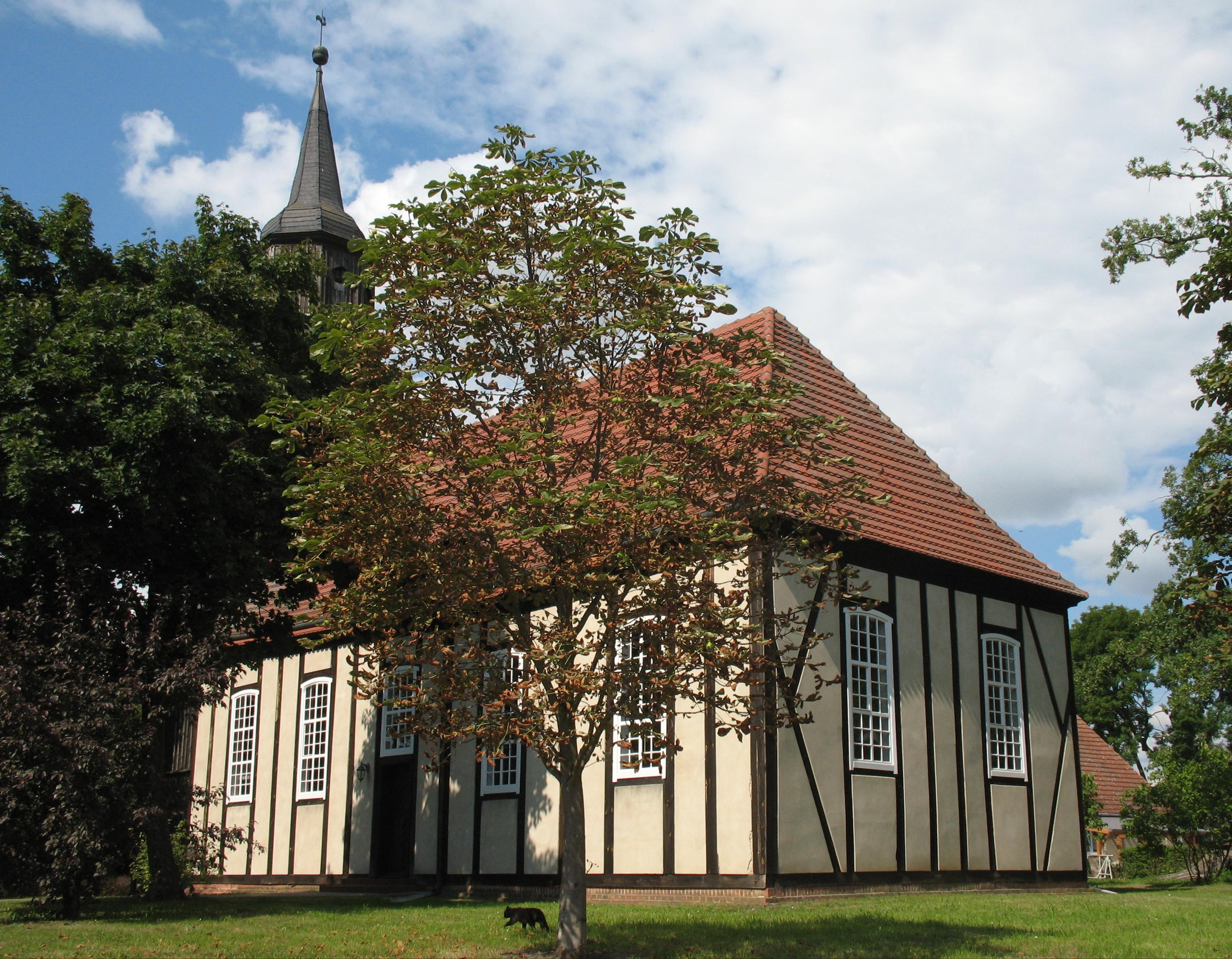 Church in Fehrbellin-Karwesee in Brandenburg, Germany Object location52° 45′ 32.09″ N, 12° 47′ 12.34″ E